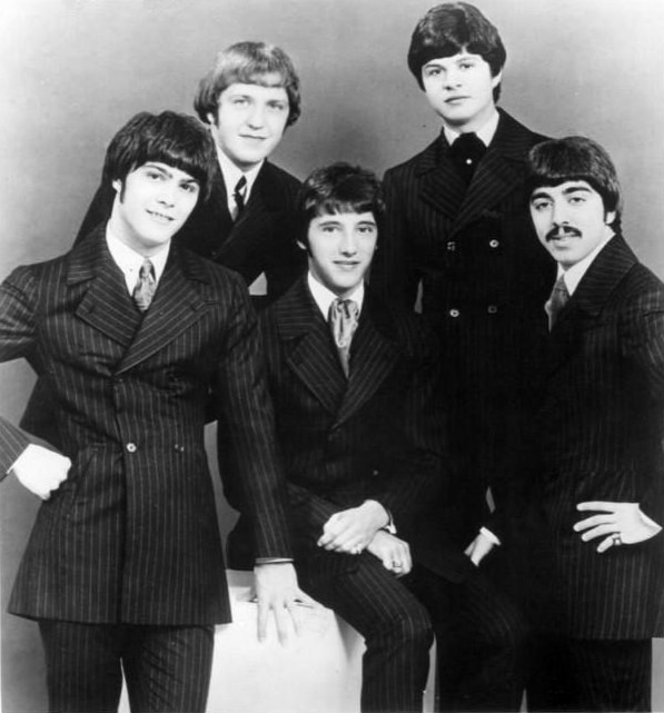 Publicity photo of the musical group The Buckinghams.